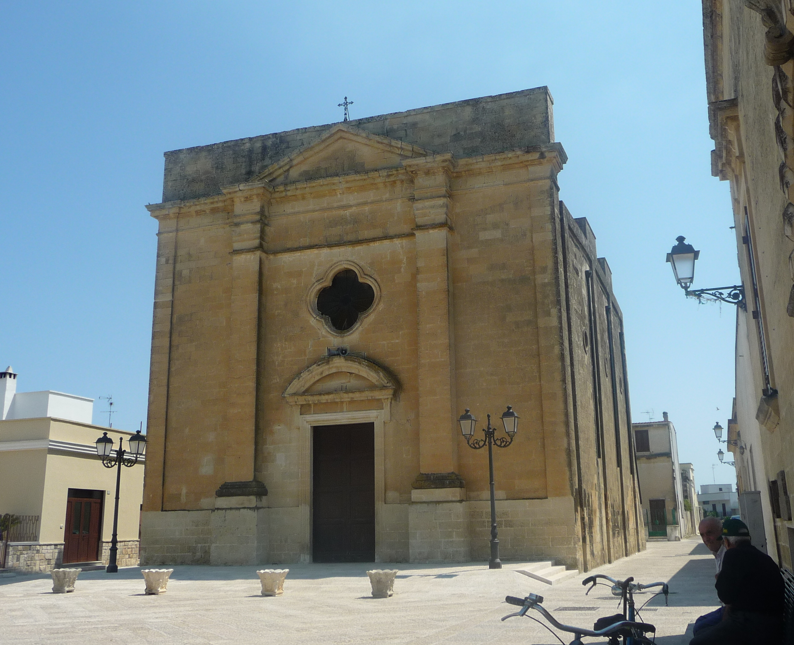 Church Santa Maria delle Neve in Acaya, Province Lecce